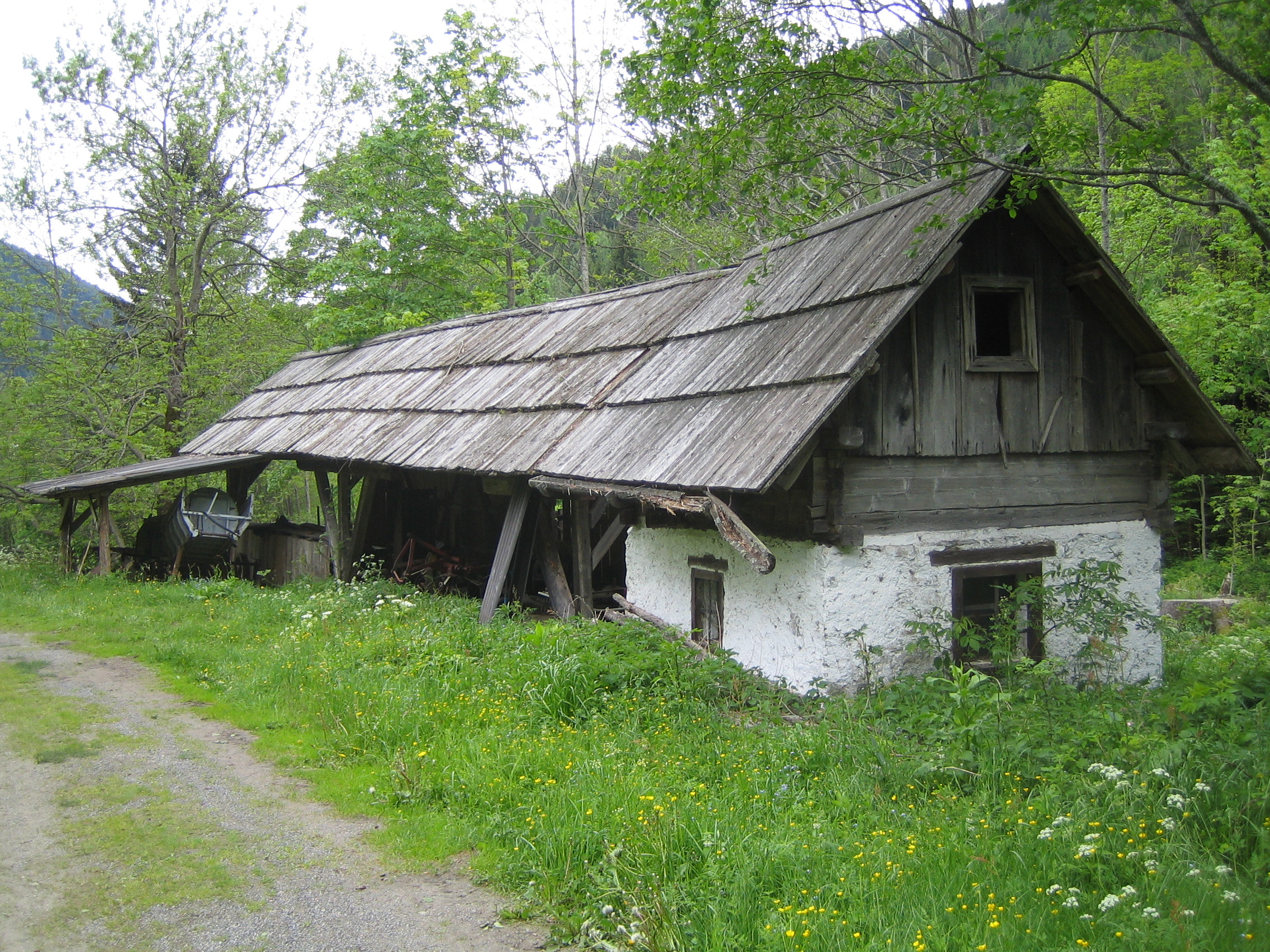 Barnyard „Bartl-Sepp Sagler“ near Obertschern, Bad Kleinkirchheim, Carinthia, Austria